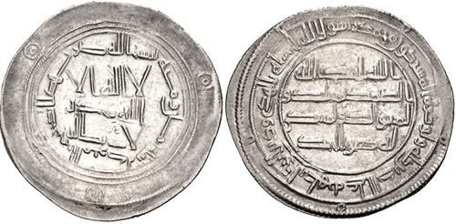 ISLAMIC, Umayyad Caliphate. temp. Hisham ibn 'Abd al-Malik. AH 105-125 / AD 724-743. AR Dirhem (27mm, 2.92 g, 9h). al-Mubaraka (Balkh) mint. Dated AH 108 (AD 726/7). Klat 571.b1; Album 137. VF, areas of faint porosity.